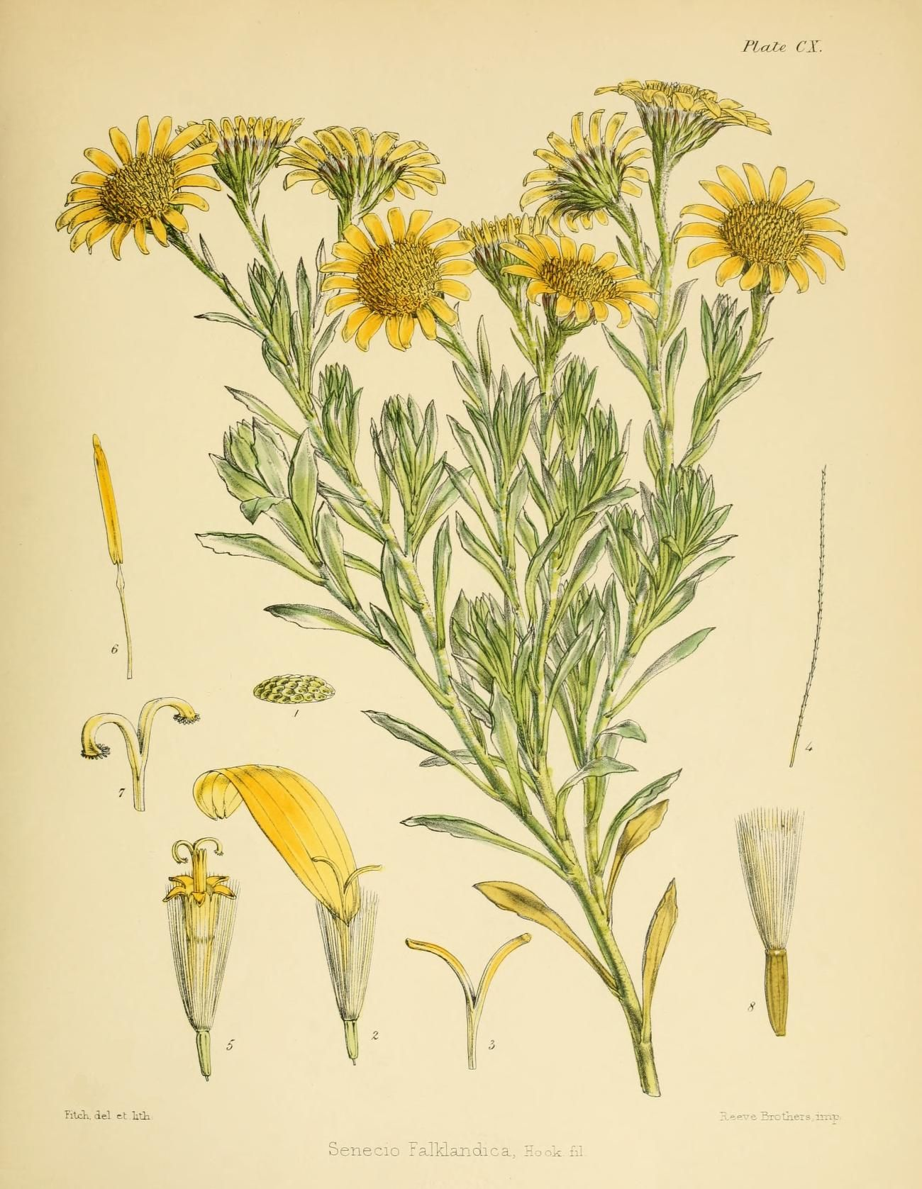 jpg of Plate CX of Hooker's Flora Antarctica. Senecio falklandica Hook. fil.